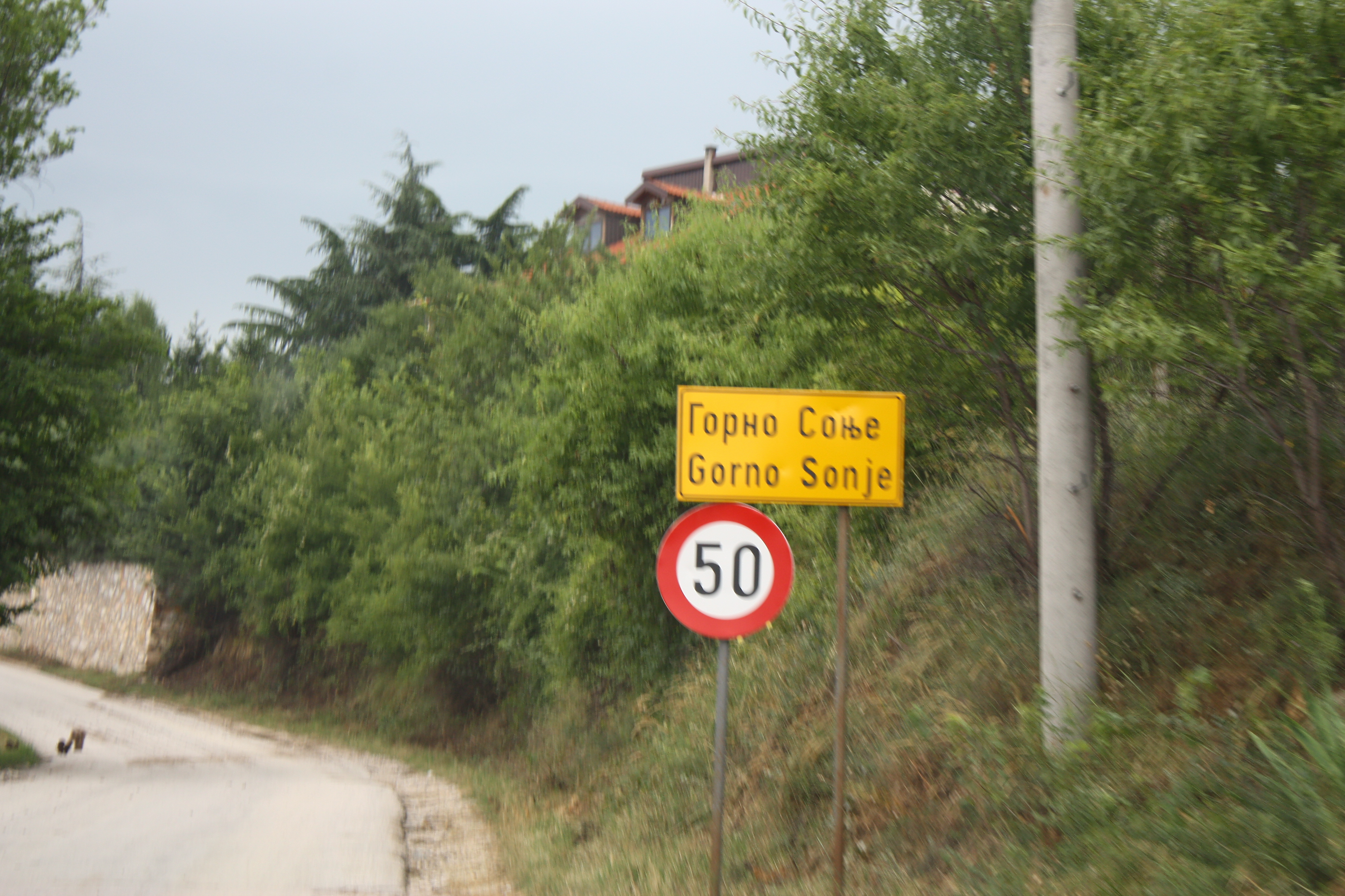 Gorno Sonje, Macedonia